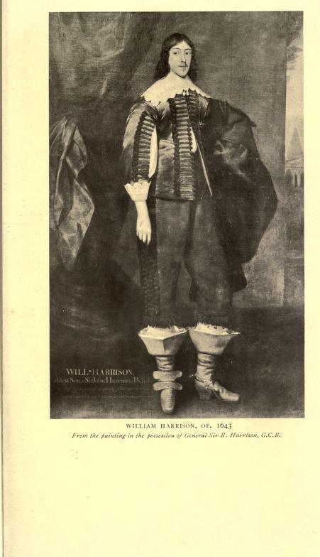 Portrait of William Harrison (died 1643), English Member of Parliament and Royalist soldier.